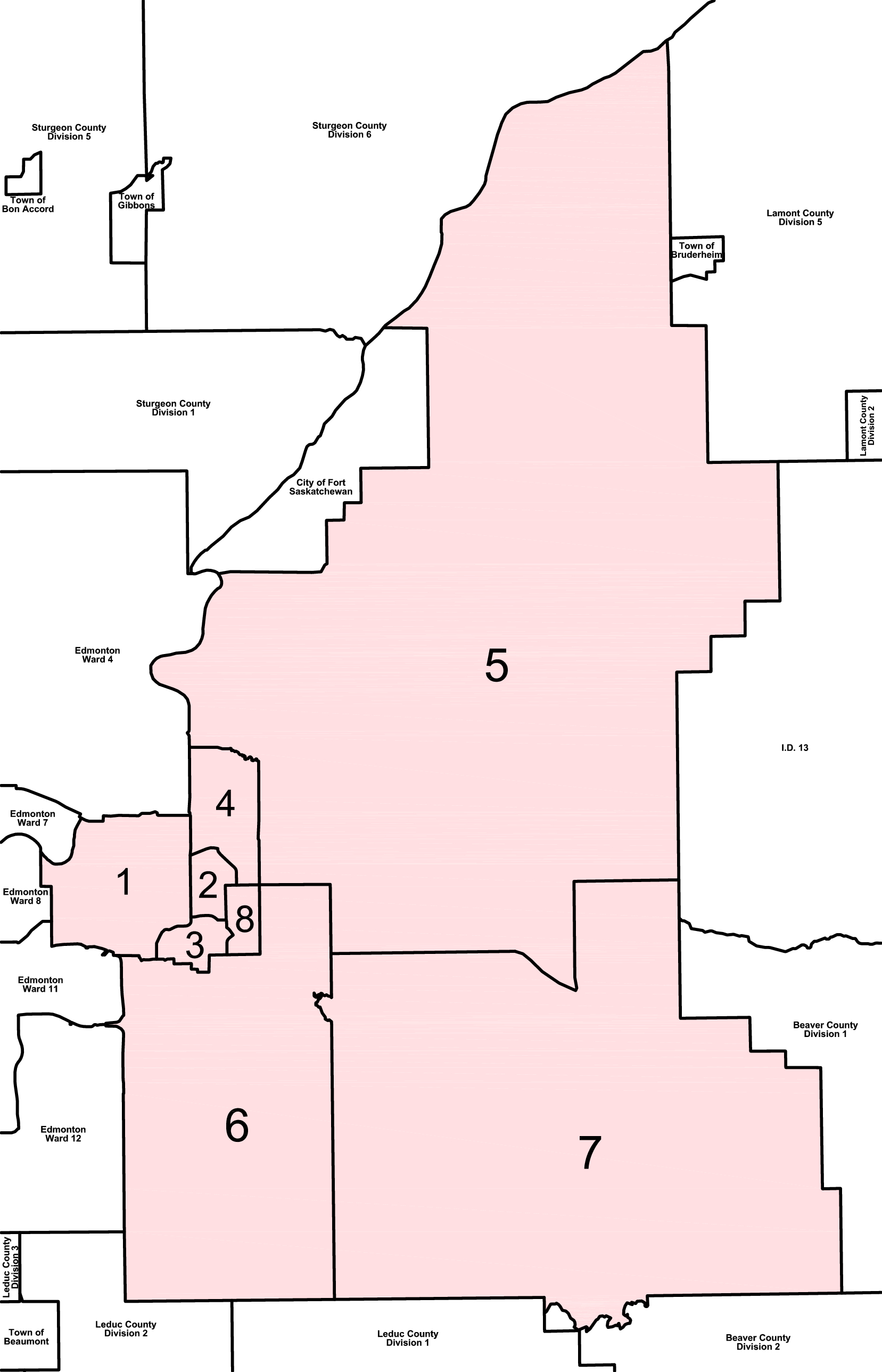 Municipal electoral wards in and around Strathcona County in 2010.